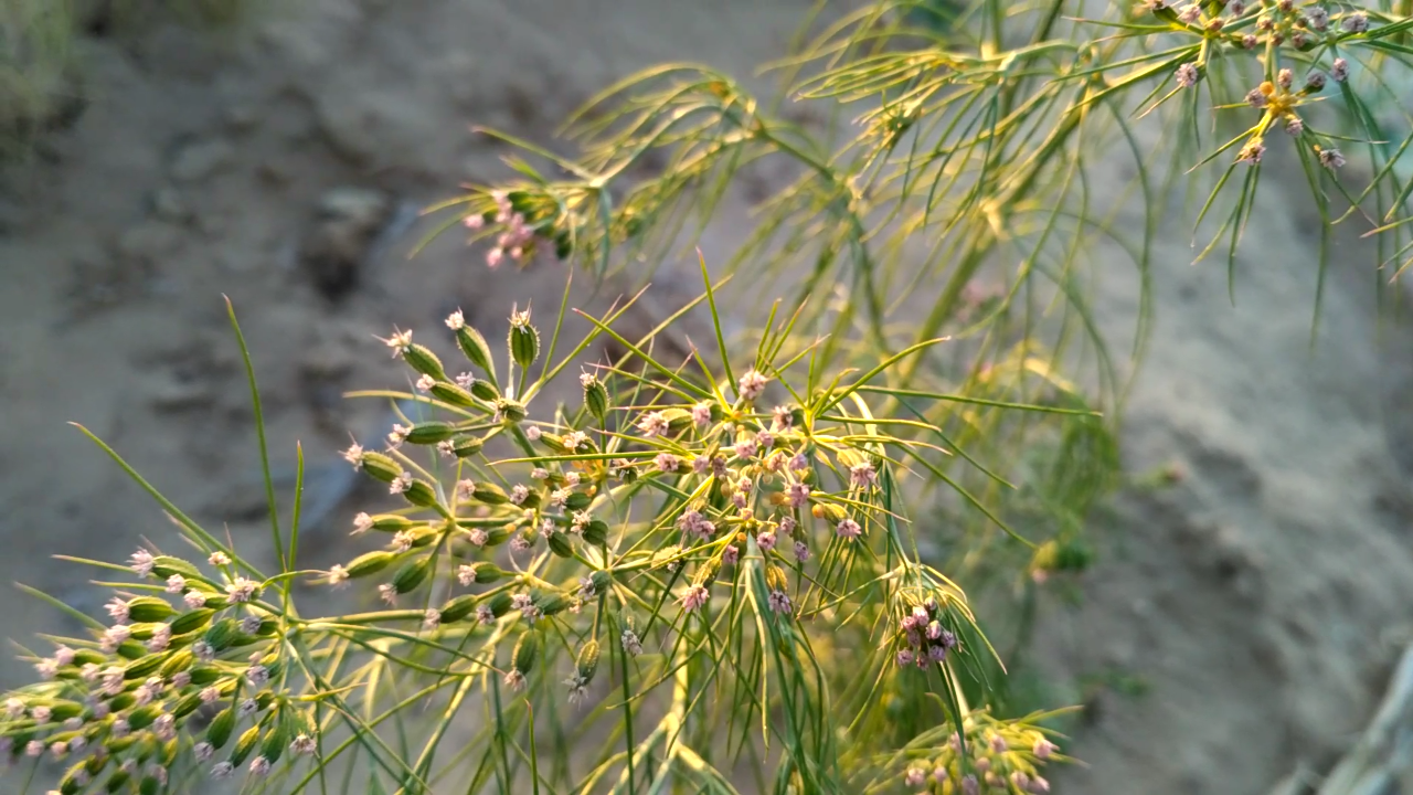 Cumin plant, Rajasthan